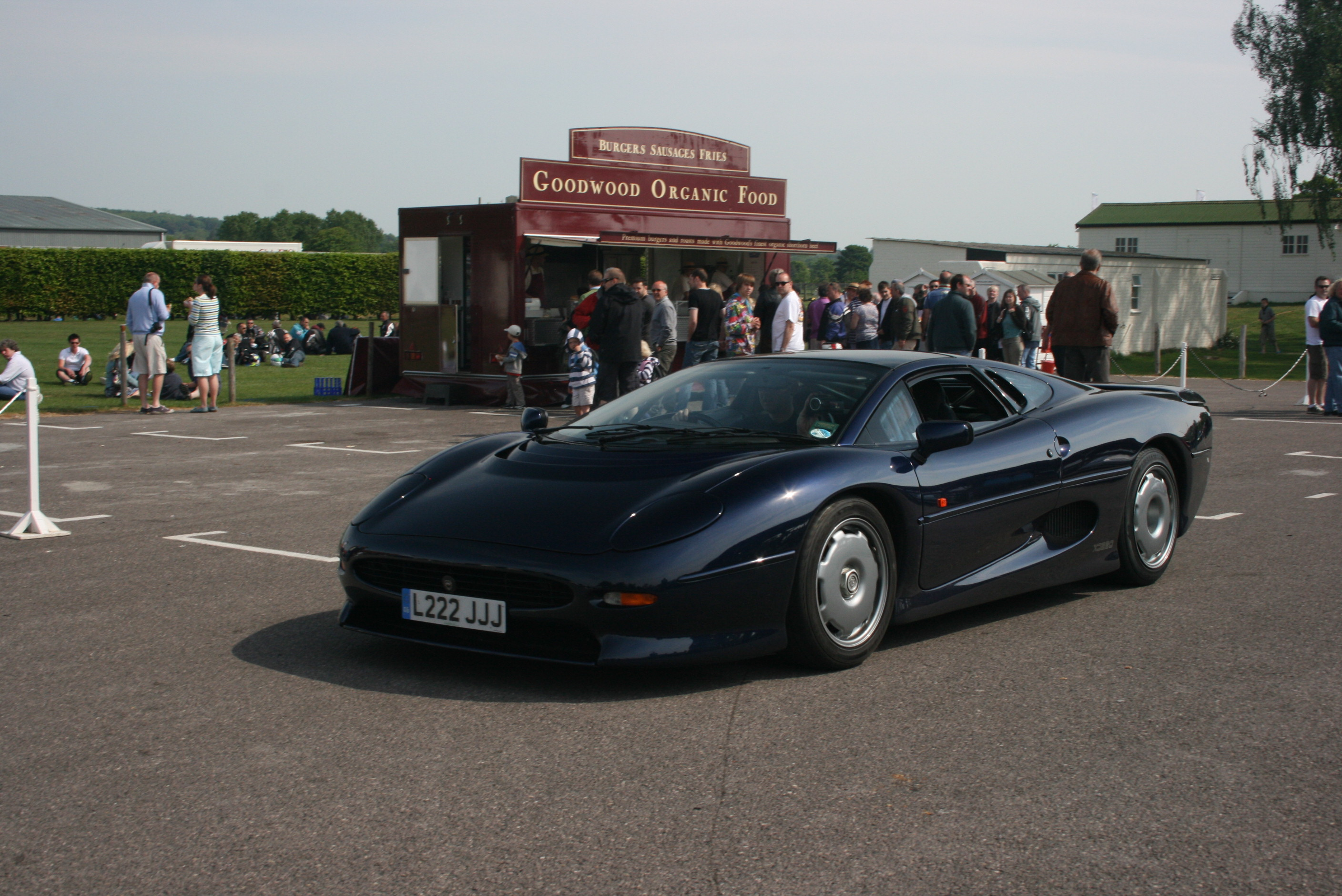 Very rare, but there were three of them here today!